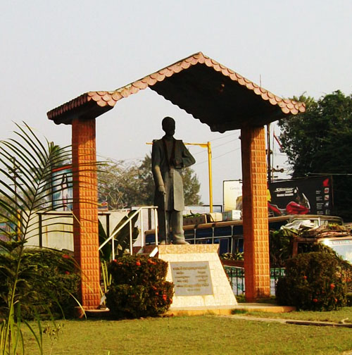 Fakir Mohan Senapati, The Great Novelist ,Short Story Writer, Poet, , Philosopher and Social Activist of Balasore